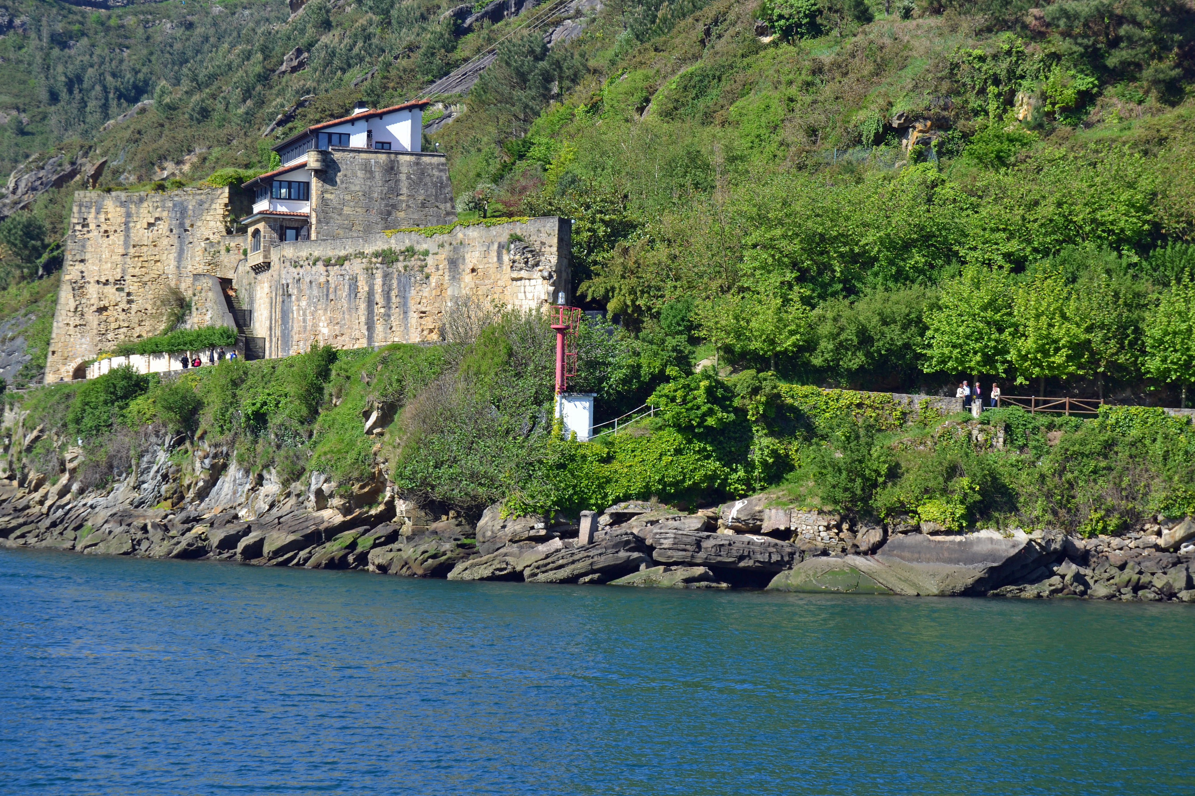 Pasai Donibane, Gipuzkoa, Basque Country